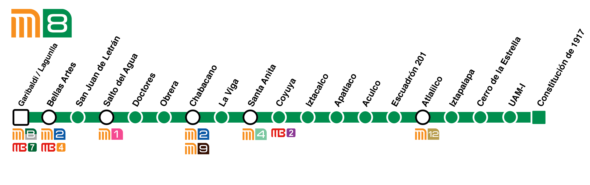 Mexico City Metro Line 8 plan, 2018